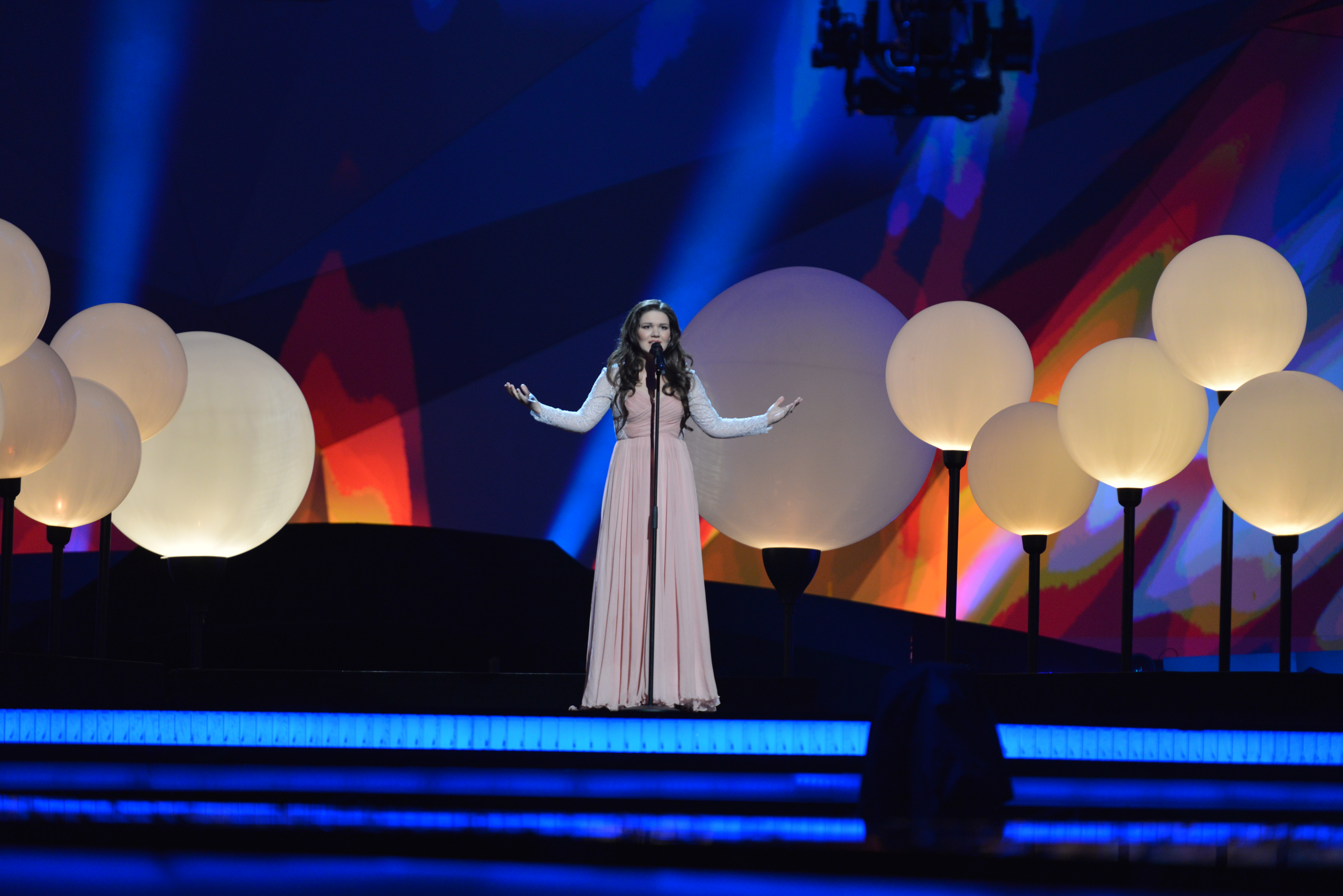 Dina Garipova representing Russia with the song "What If" during the first dress rehearsal of the first semi final of the Eurovision Song Contest 2013 in Malmö. (Help translate this text)